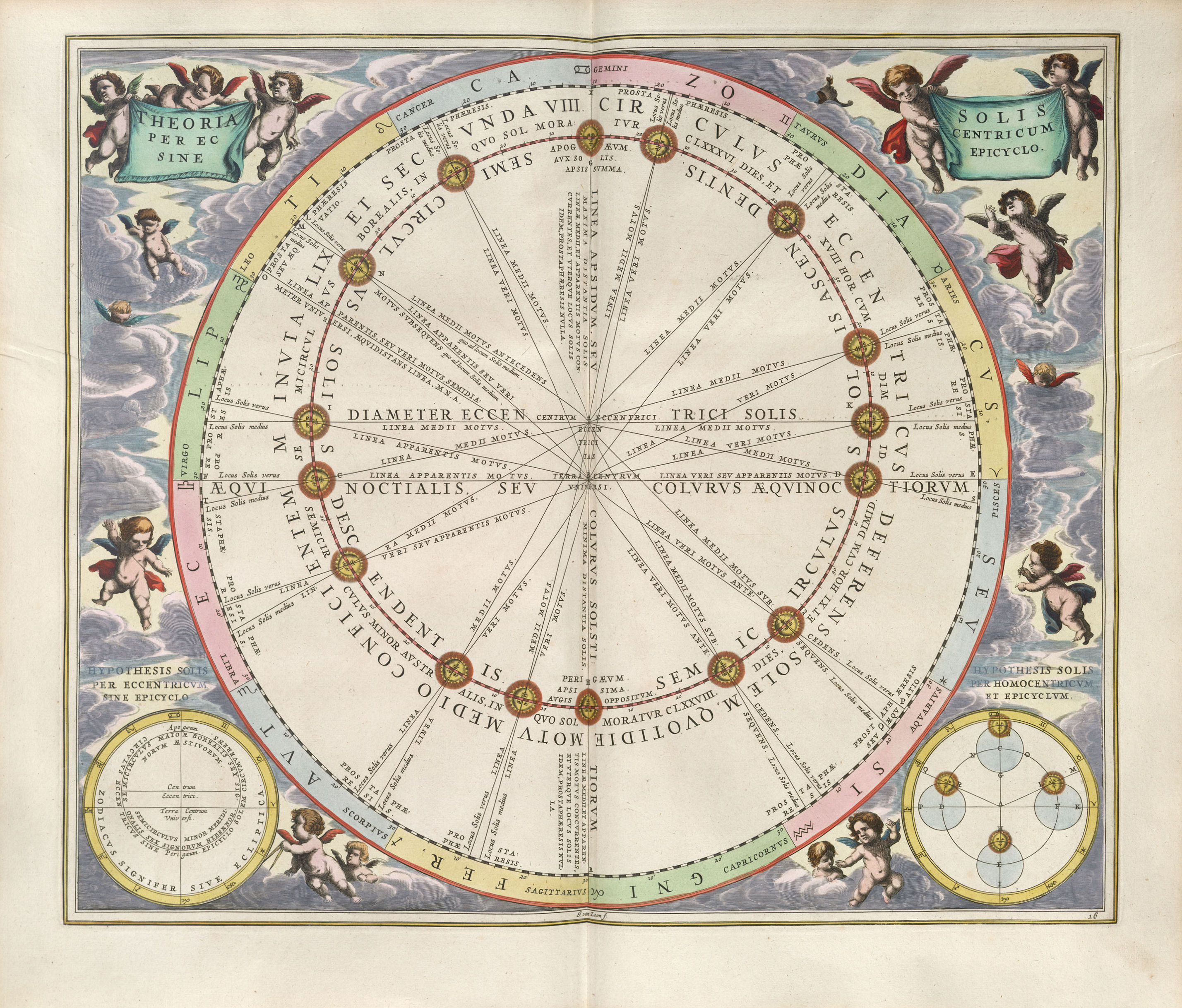 Andreas Cellarius: Harmonia macrocosmica seu atlas universalis et novus, totius universi creati cosmographiam generalem, et novam exhibens. Plate 16. THEORIA SOLIS PER ECCENTRICUM SINE EPICYCLO - Representation of the Sun in an eccentric orbit without epicycles.